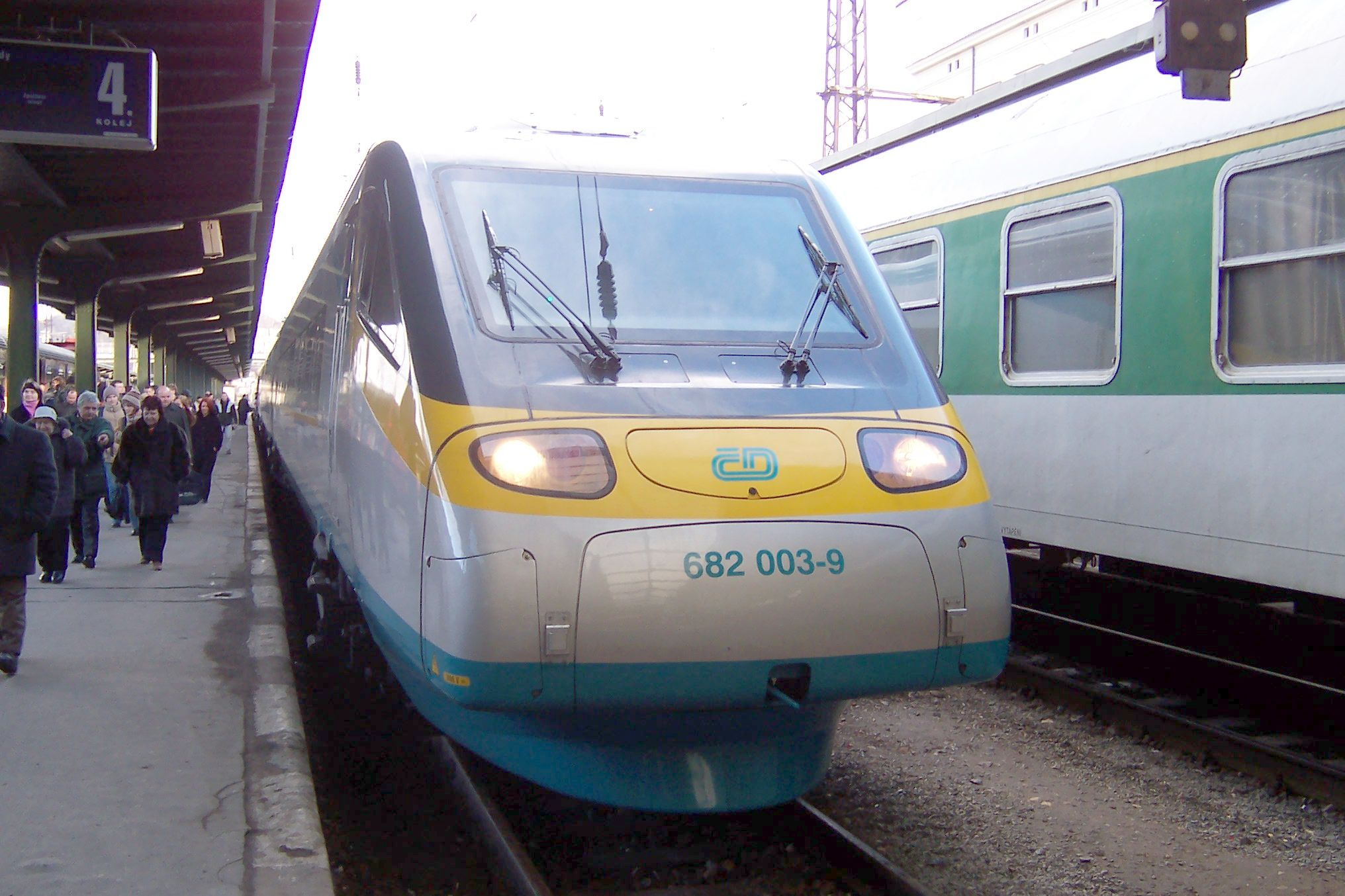 Fast train unit Pendolino has just arrived to Masarykovo nádraží (Masaryk's station) in Czech capital Prague.